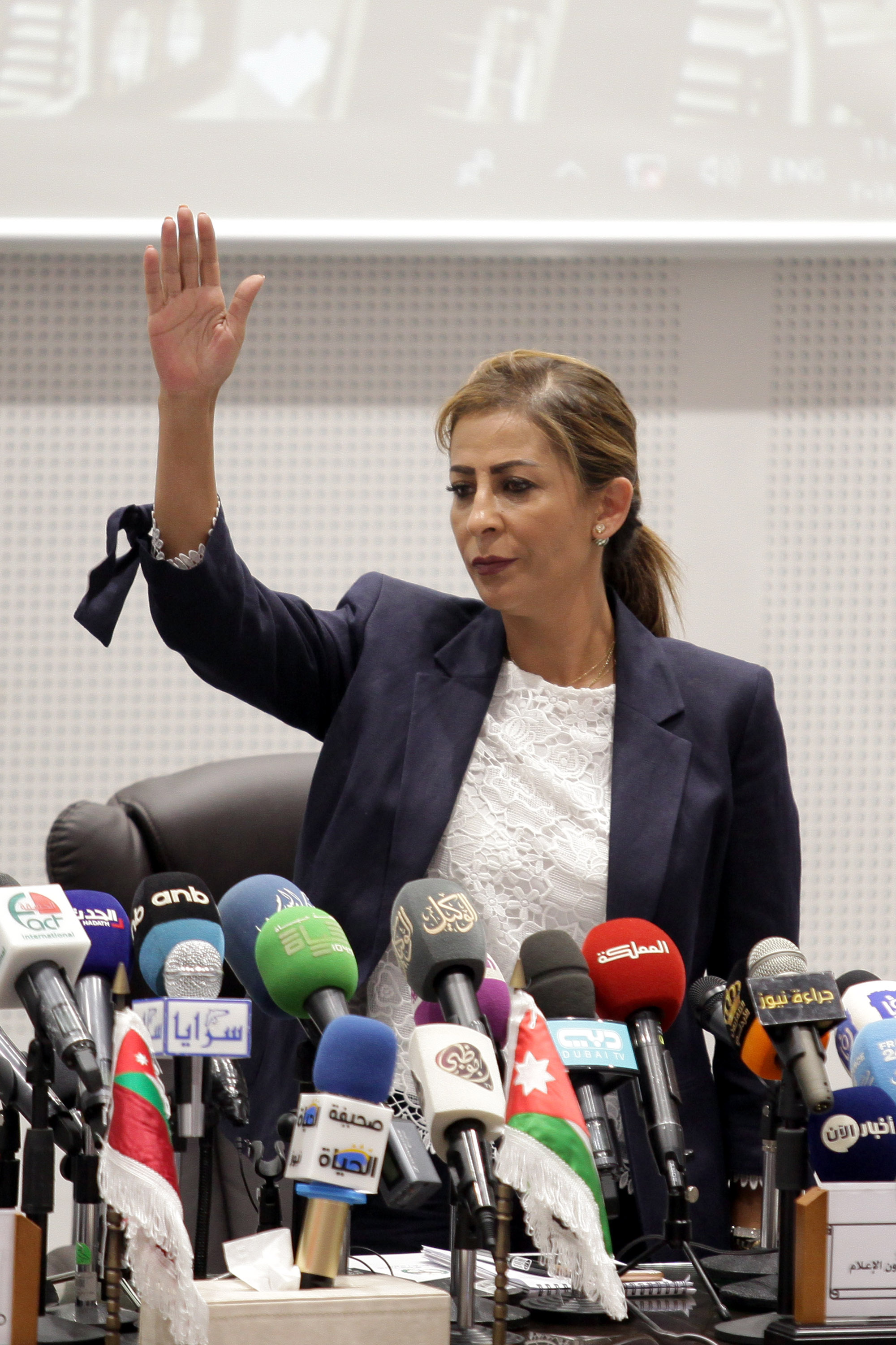 Jumana Ghunaimat, Jordan's Minister of State for Media Affairs during a press conference in amman on August 13, 2018. Photo/Ahmad Abdo